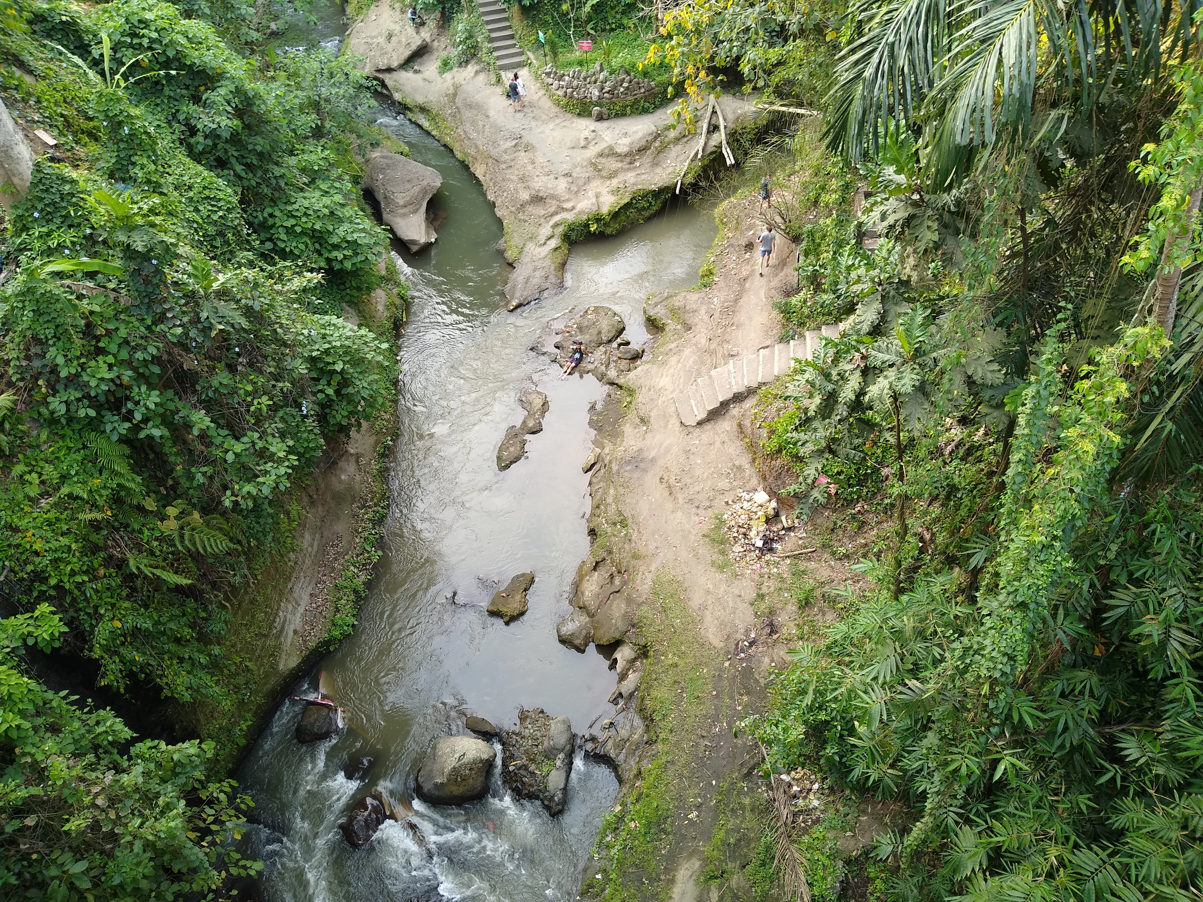 Meeting of the rivers at Campuhan, Bali. According to the sign: "Campuhan - the point where two rivers converge - is a very sacred energy center of Bali activated by the holy man Ida Maha Rsi Markandeya."